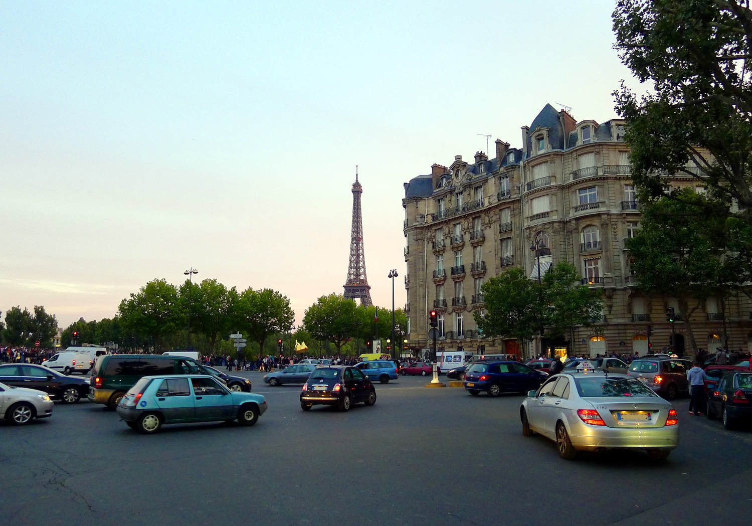 Alma place - Paris